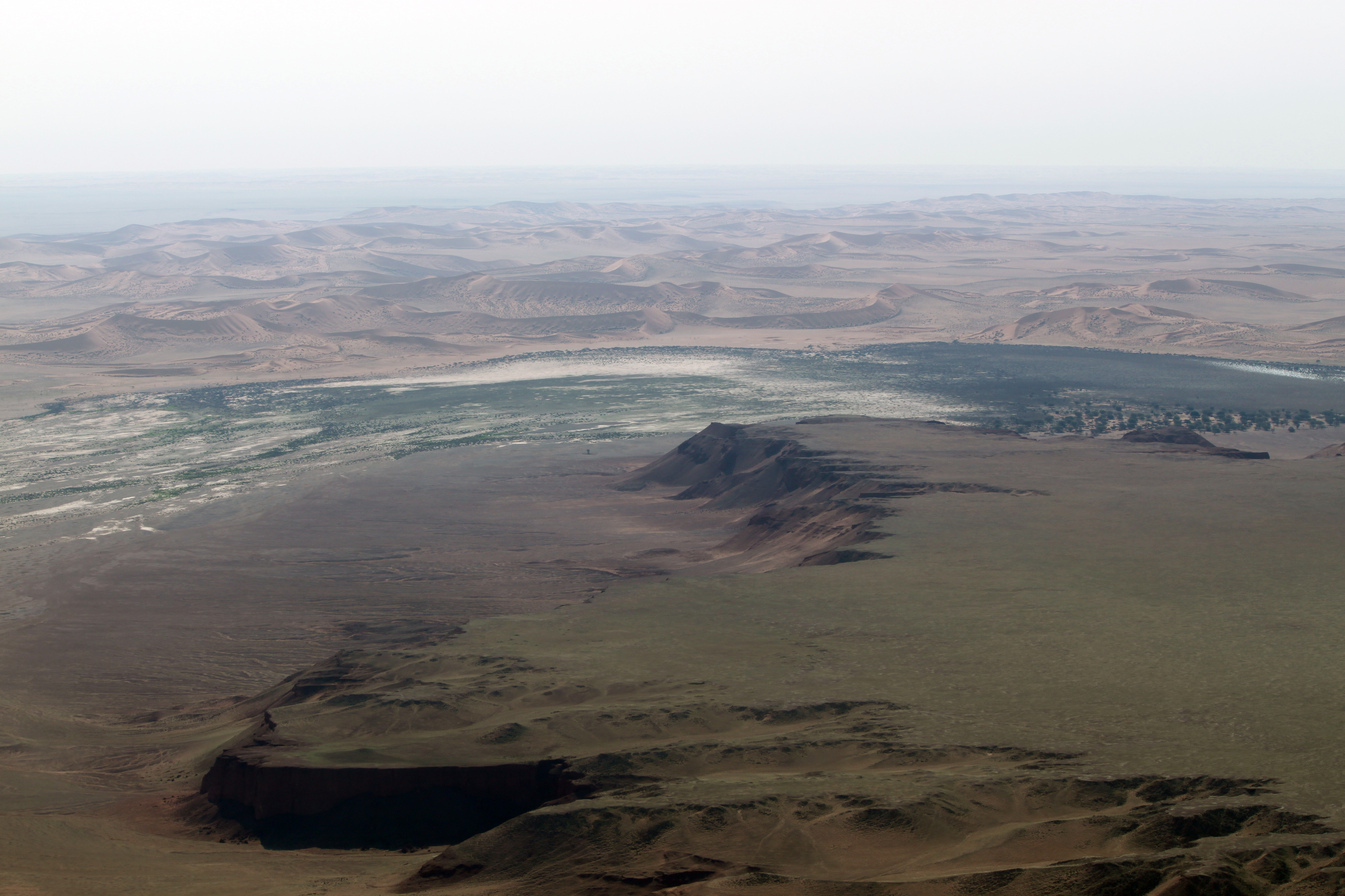 Tsondabvlei by air, Namibia